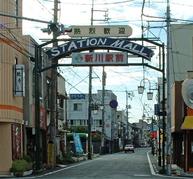 Shopping mall by Ube-Shinkawa Station, Ube, Japan